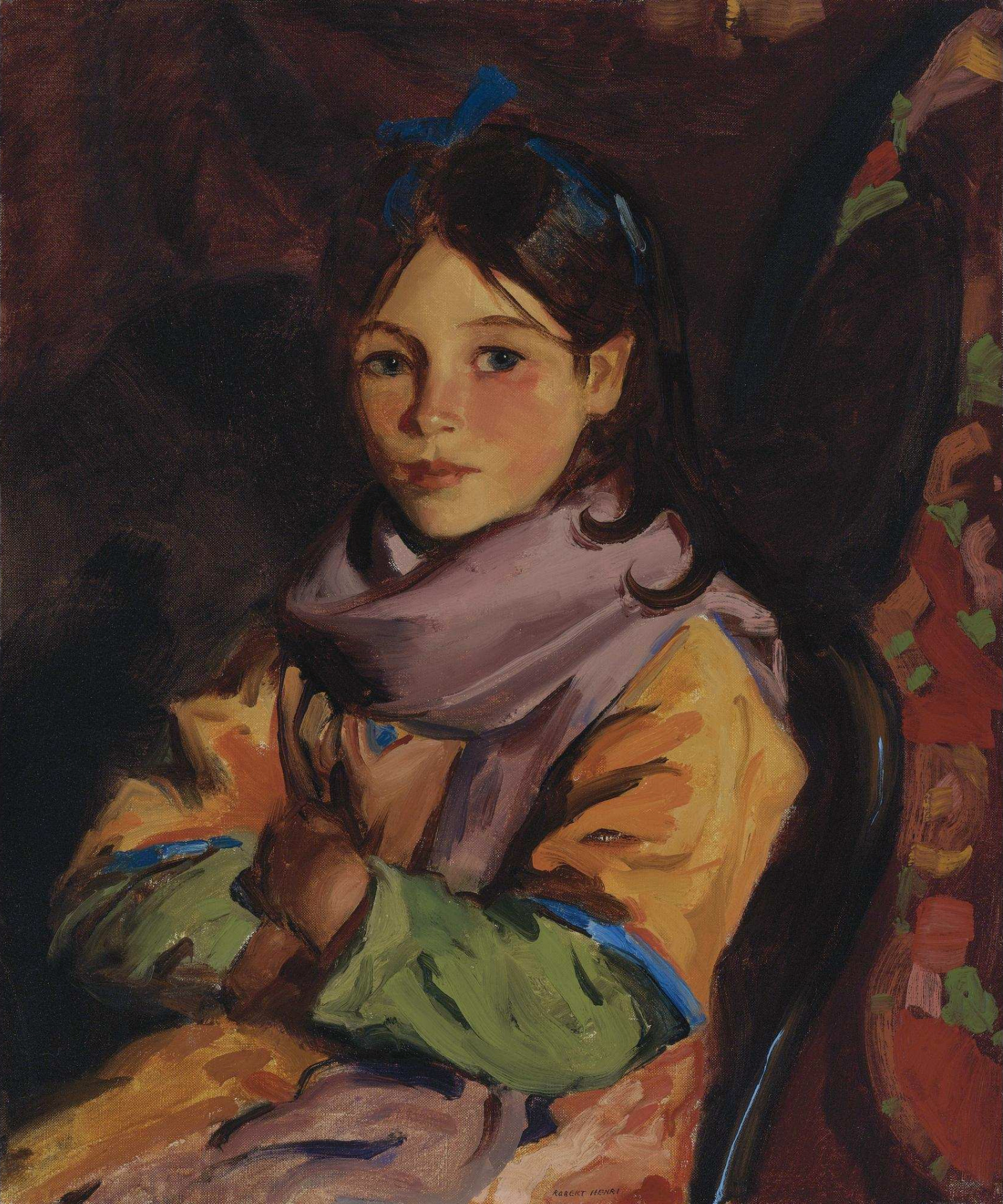 Mary Agnes painted in Dooagh in 1924 61 x 50.8 cm oil on canvas signed l.c. Rober Henri inscribed on the reverse Mary Agnes